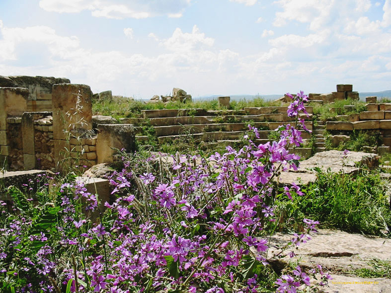 site antique ruines